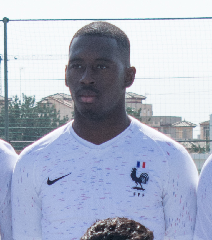 USA U20 v France U20, 22 March 2019